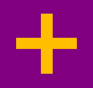 Divellion (imperial insignia) of Emperor Dušan. Emperor Dušan adopted the Imperial divellion, which was purple and had a golden cross in the center.[1] ↑ Milić Milićević (1995) Grb Srbije: razvoj kroz istoriju[1], "Službeni Glasnik", page 22